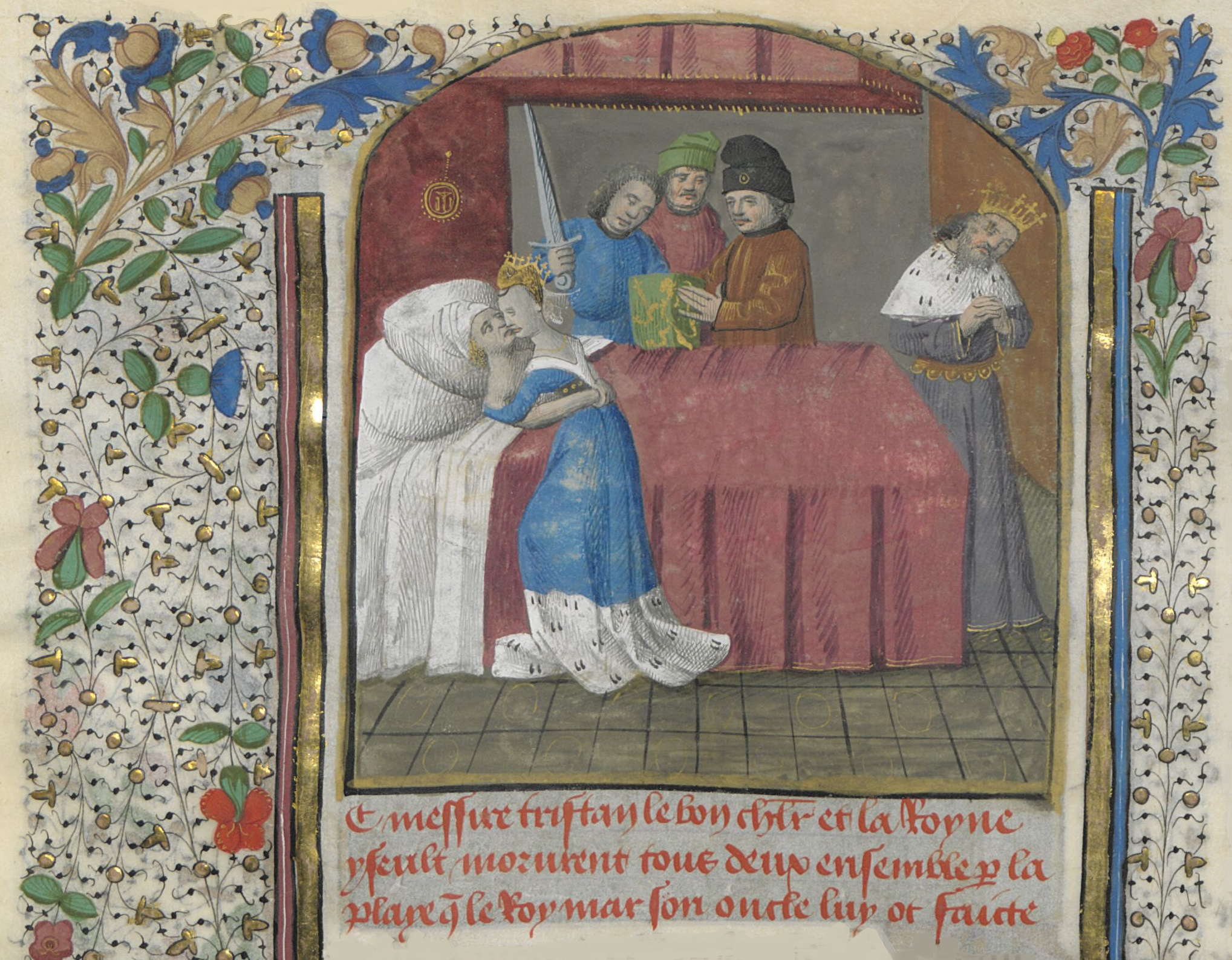 The death of Tristan and Isolde, miniature of the XV century.